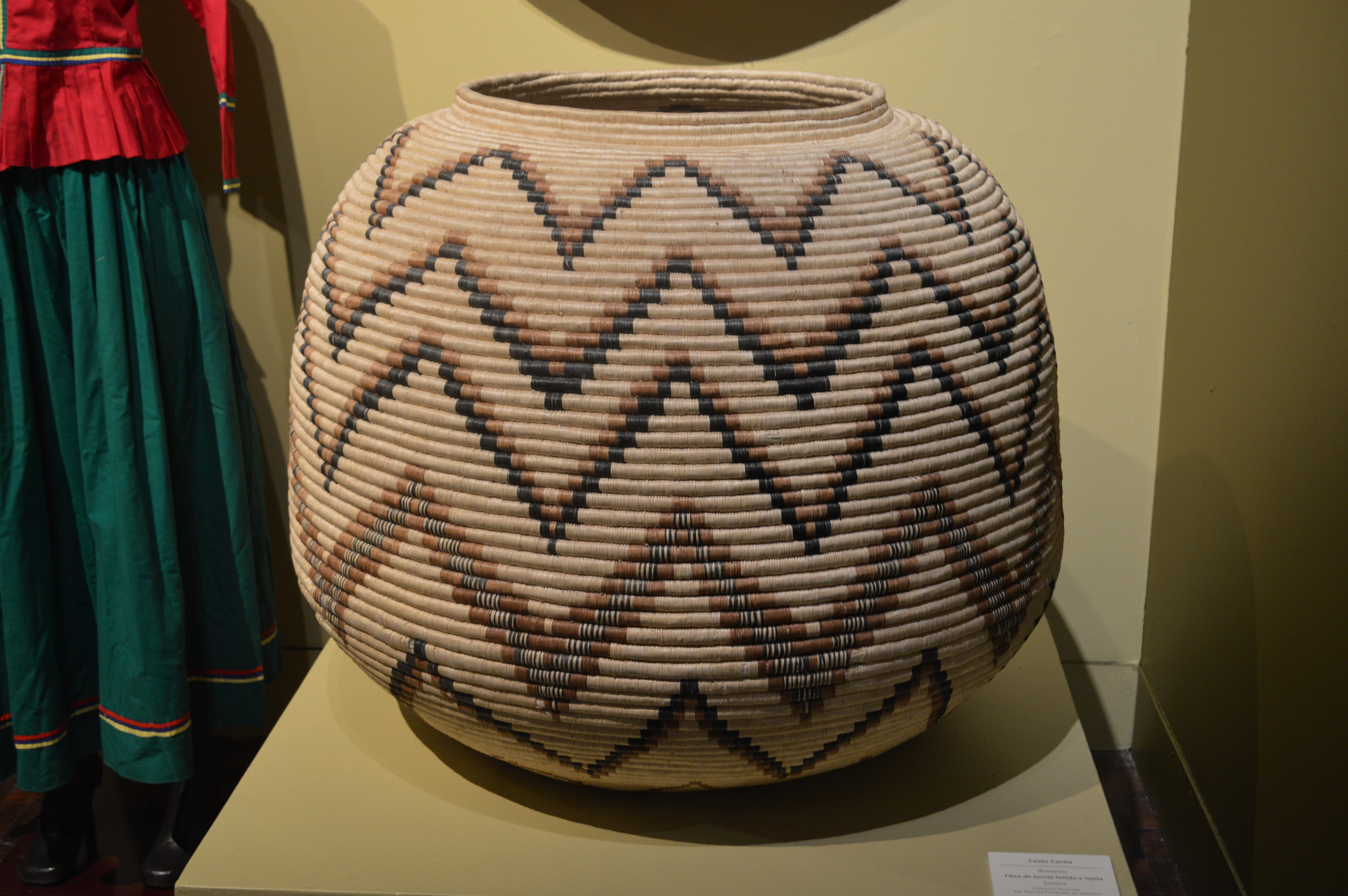 Corita basket from Sonora at the El Norte, su materia, su artesania at the Museo de Arte Popular in Mexico City